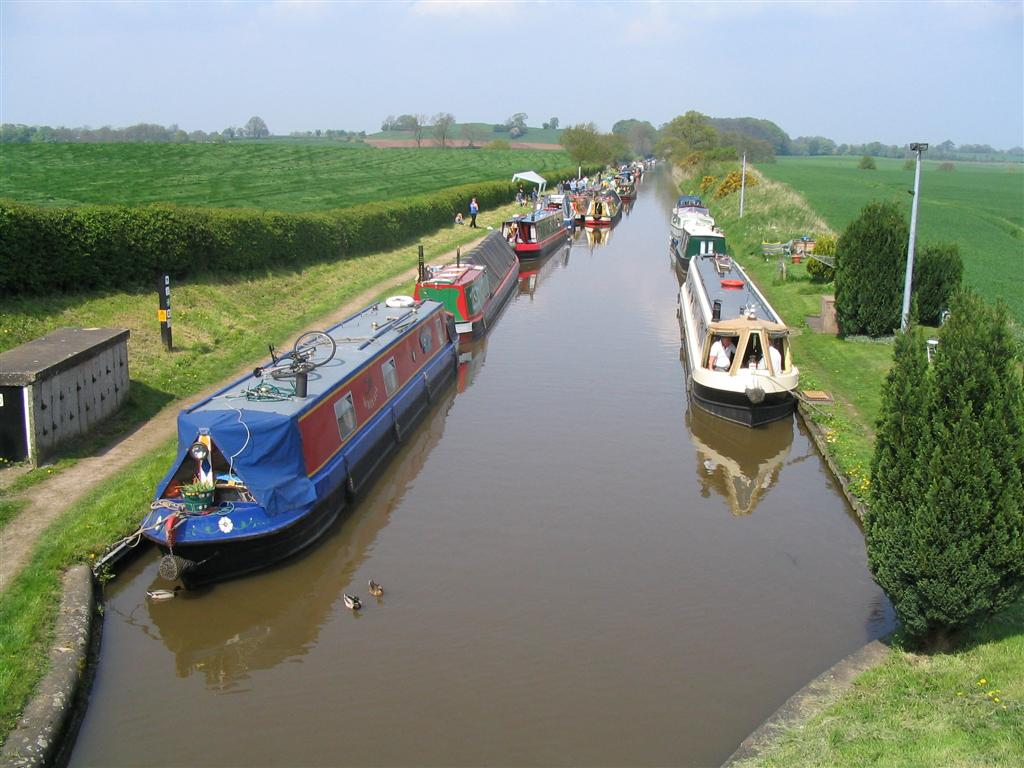 Photograph of the Shropshire Union Canal near Norbury Junction. Taken by drw25.